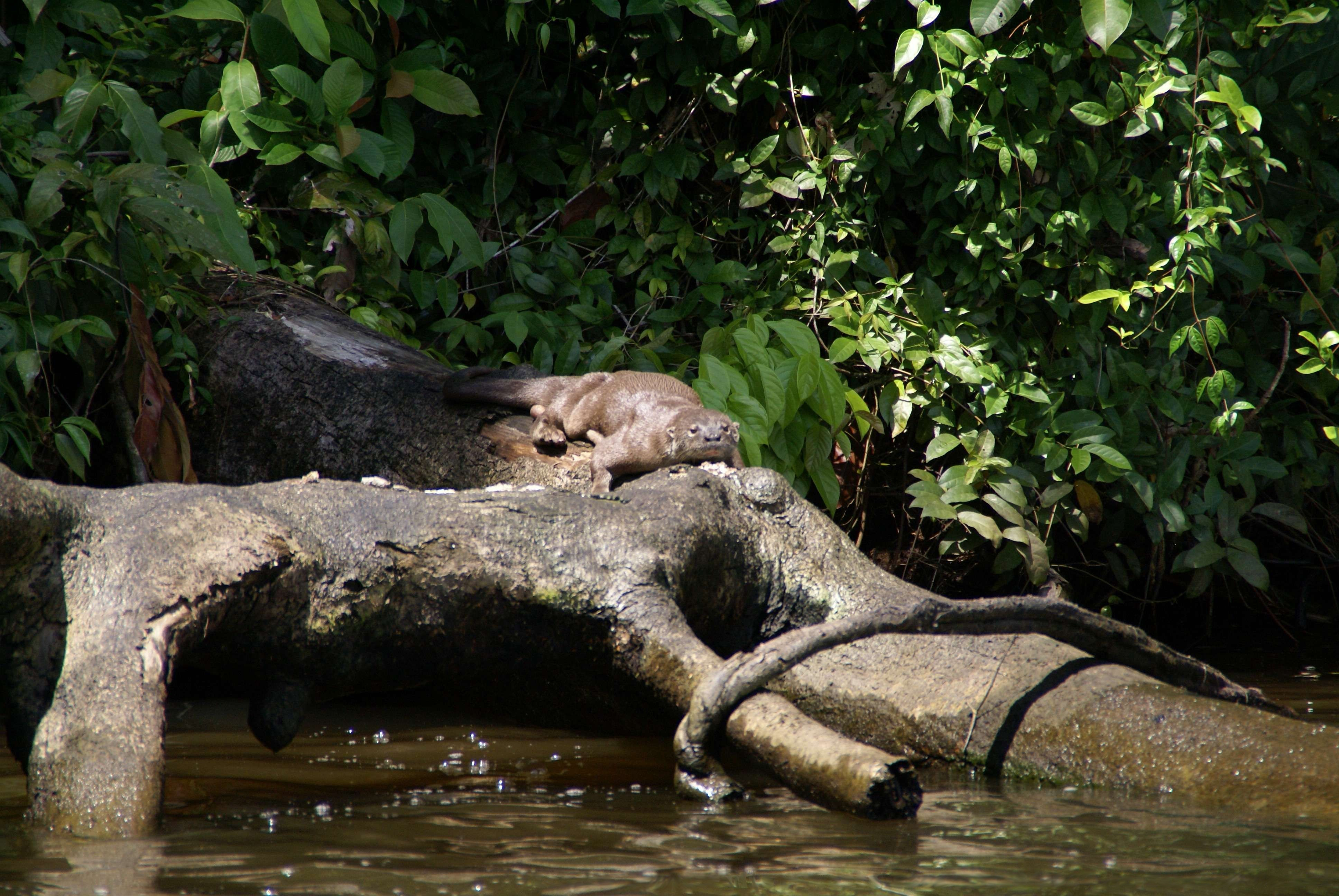 Neotropical otter